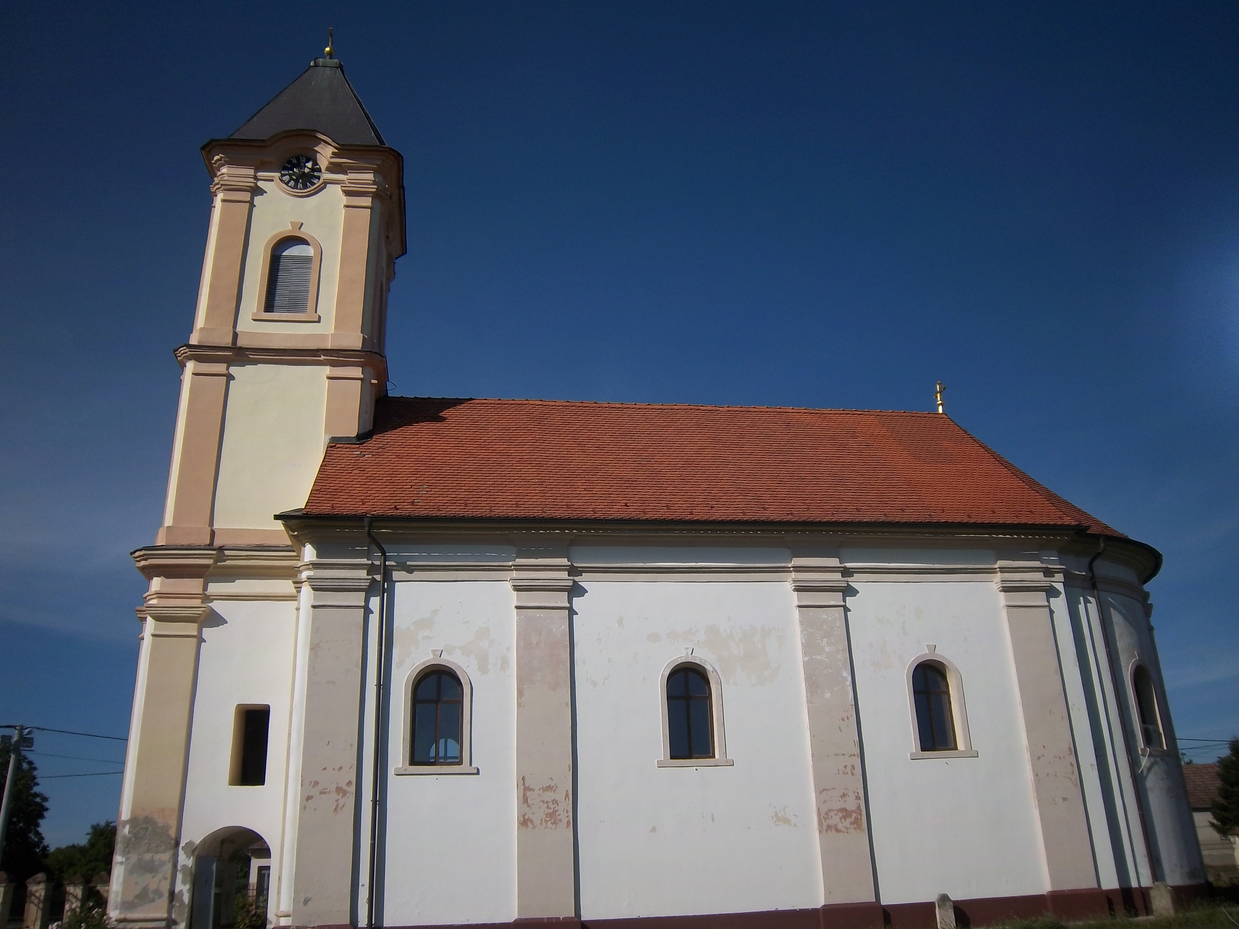 St. Petka's Orthodox Church in Banovci, Croatia